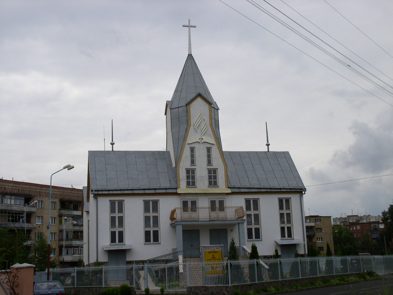 Church. Mukacheve, Ukraine.